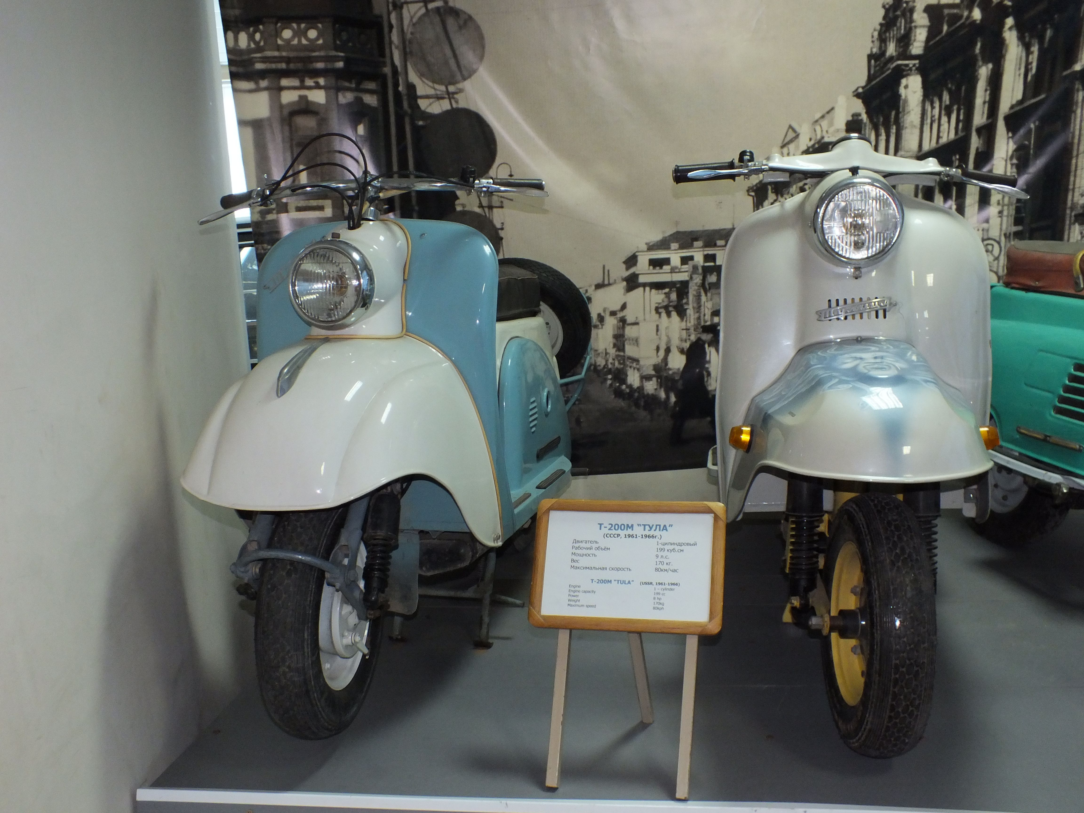 TMZ scooters